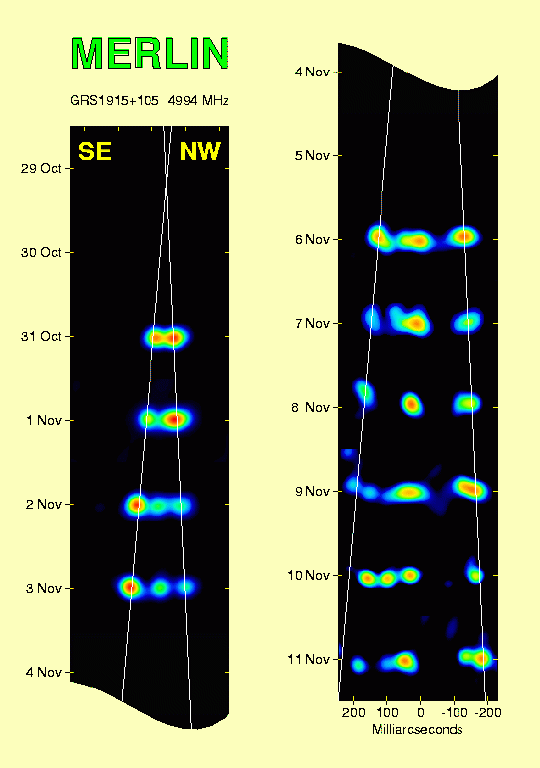 The ejection of matter at relativistic velocities from the X-ray binary GRS 1915+105